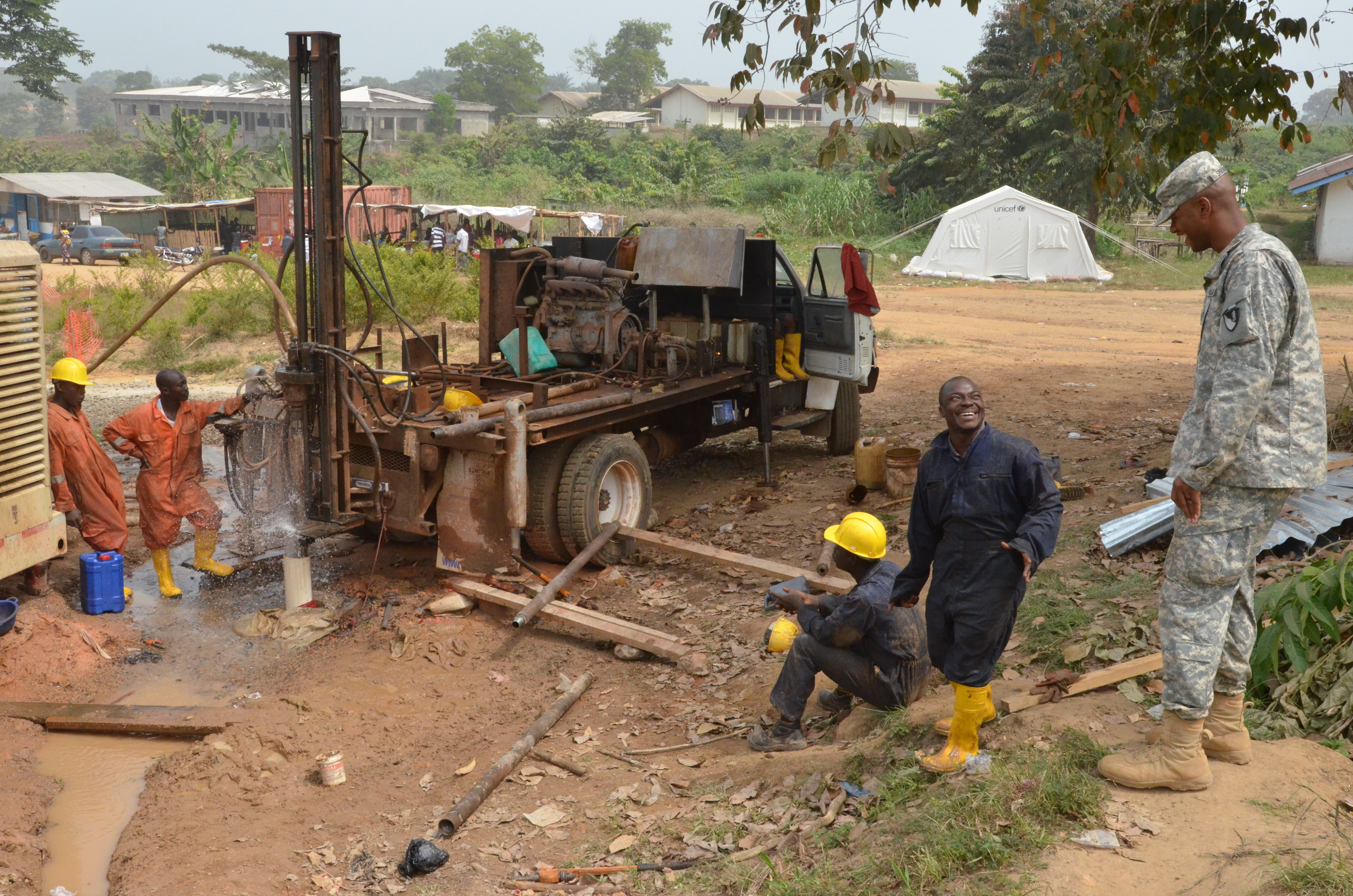 First Lt. Jordan Springer, right, an Atlanta native and contracting officer representative for the 104th Engineer Company, 62nd Engineer Battalion, 36th Engineer Brigade, based out of Fort Hood, Texas, asks a Liberian worker about making adjustments on the pipe for a well at an Ebola treatment unit, Tubmanburg, Liberia, Jan. 13, 2015, in support of Operation United Assistance. Springer supervised the Liberian workers as they completed the water well, which will provide water for the ETU. Operation United Assistance is a Department of Defense operation in Liberia to provide logistics, training and engineering support to U.S. Agency for International Development-led efforts to contain the Ebola virus outbreak in western Africa. (U.S. Army photo by Sgt. Ange Desinor 13th Public Affairs Detachment/RELEASED)